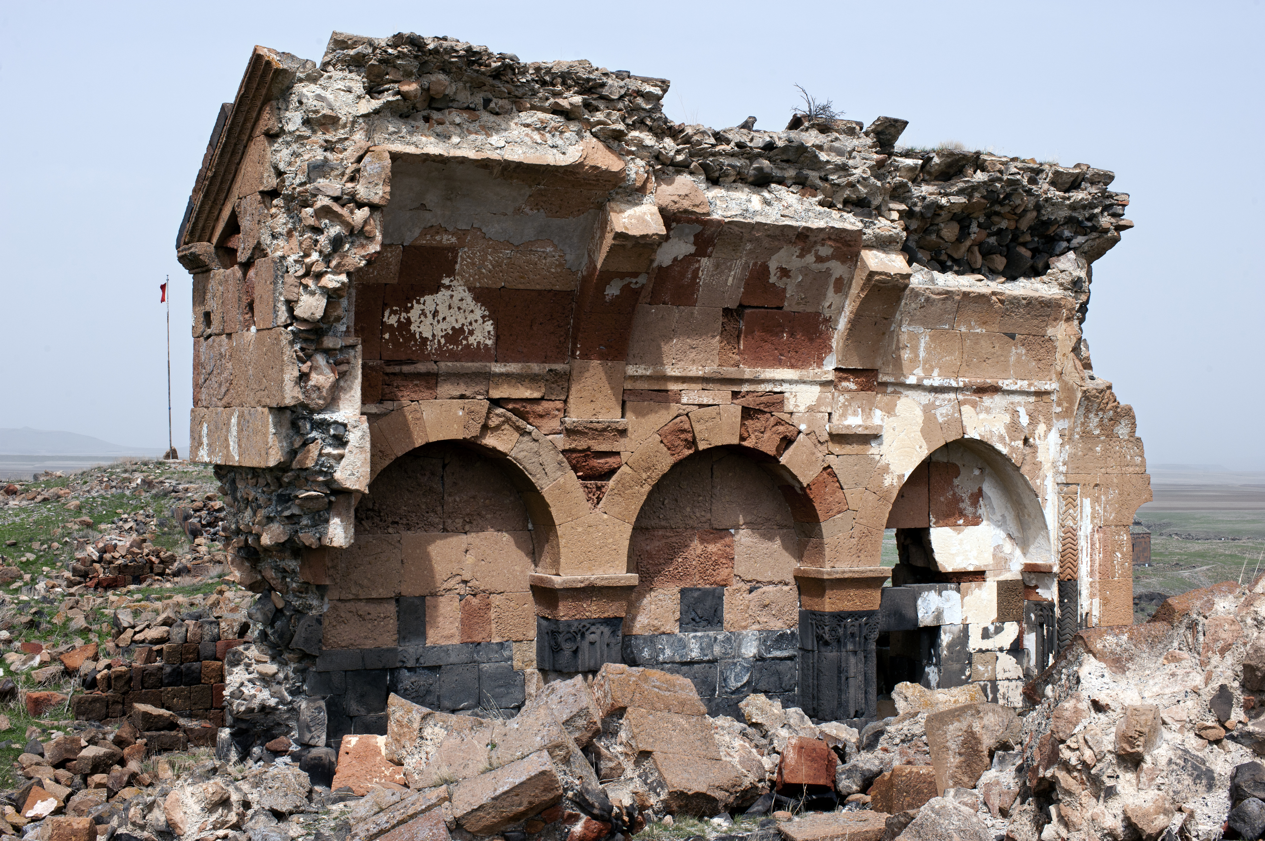 Ruins of the church of the palace in citadel, Ani, Turkey.